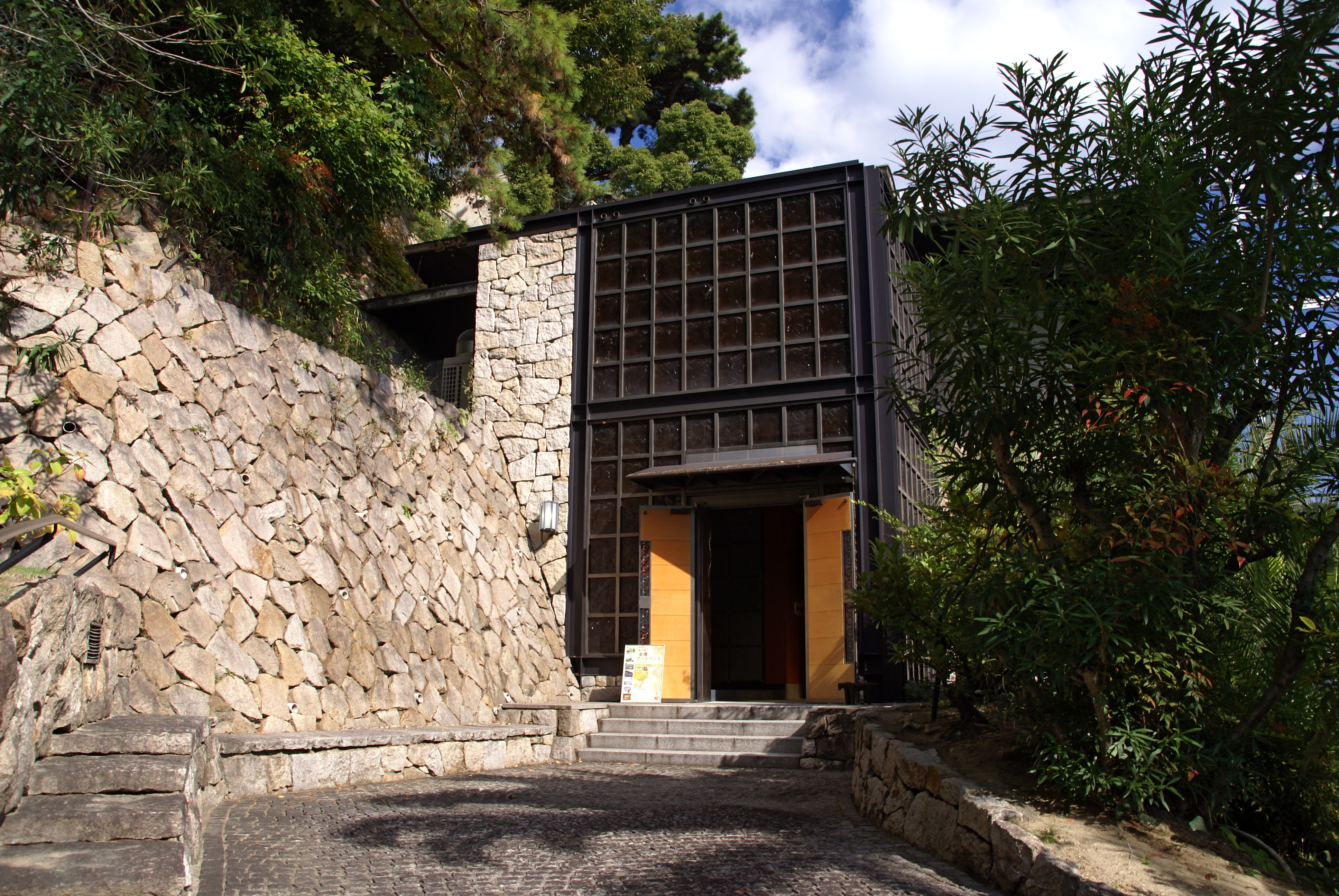 Houn Memorial Museum in Kobe, Hyogo prefecture, Japan